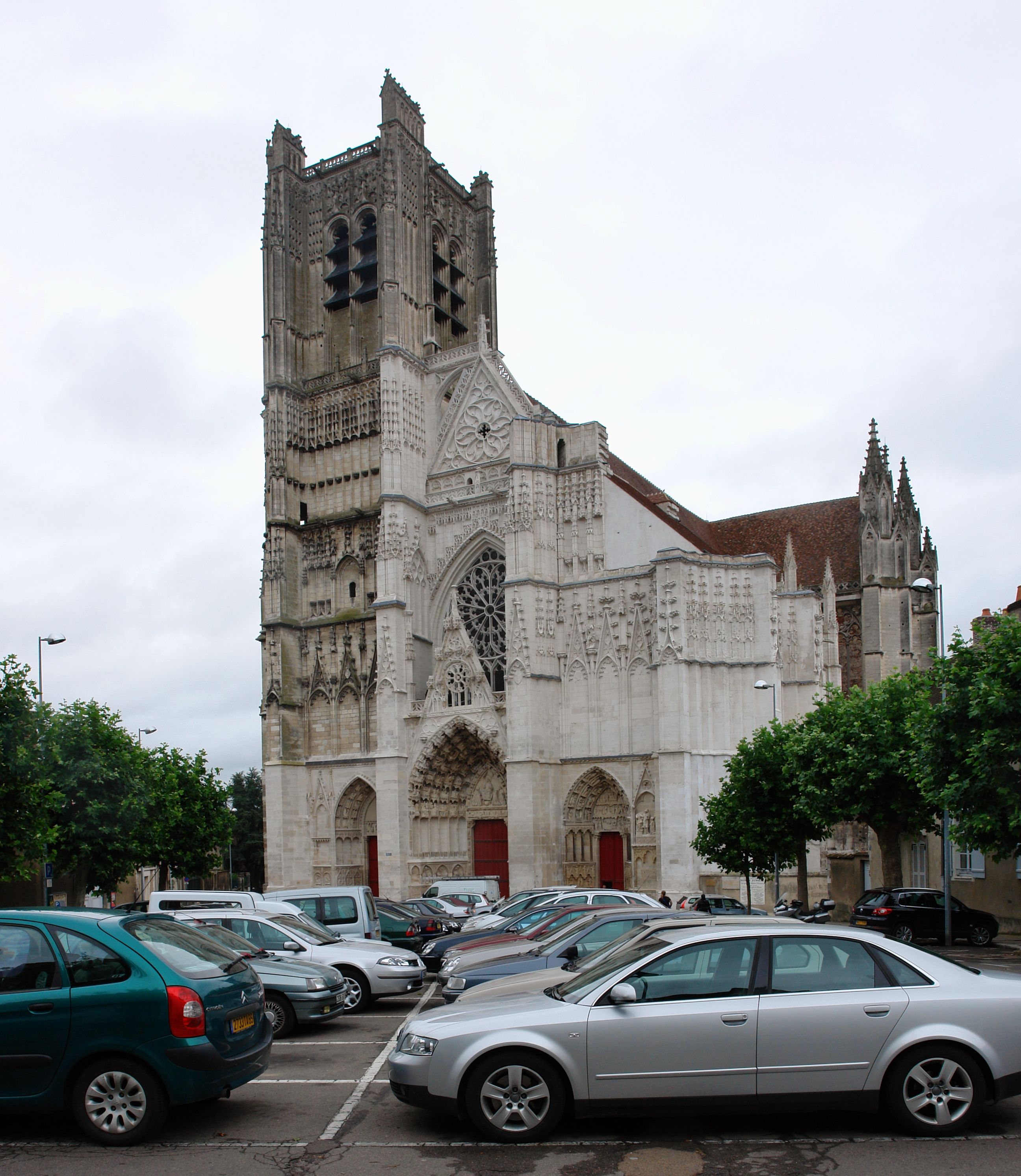 Main Facade of Saint-Etienne cathedral, Auxerre, France